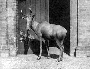 A female Alcelaphus buselaphus buselaphus Hartebeest that lived in London Zoo from 4 October 1883 until 27 April 1897. Photographed by Lewis Medland in 1895.